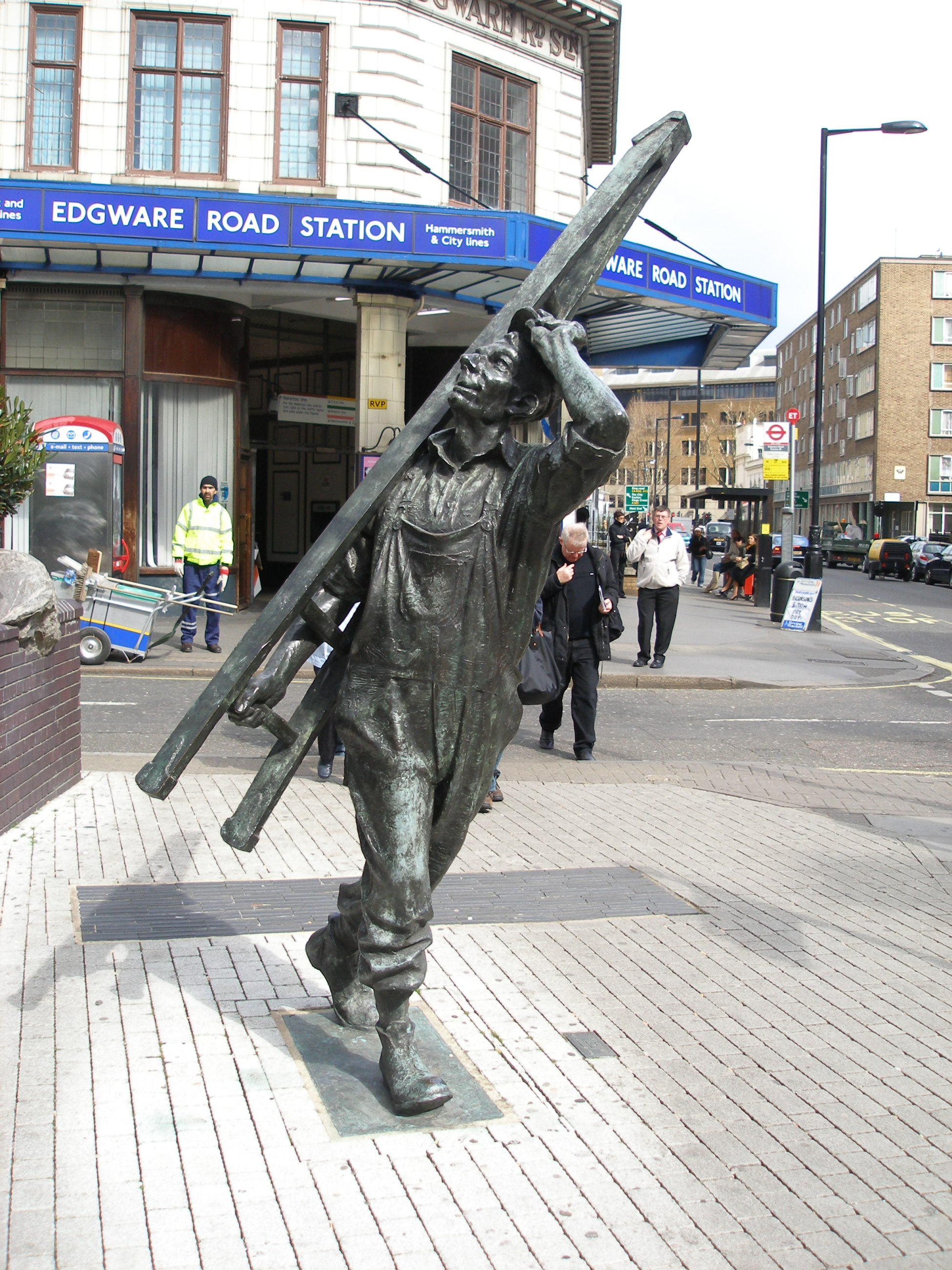 Please someone say what that statue is! The photo was taken all by myself.